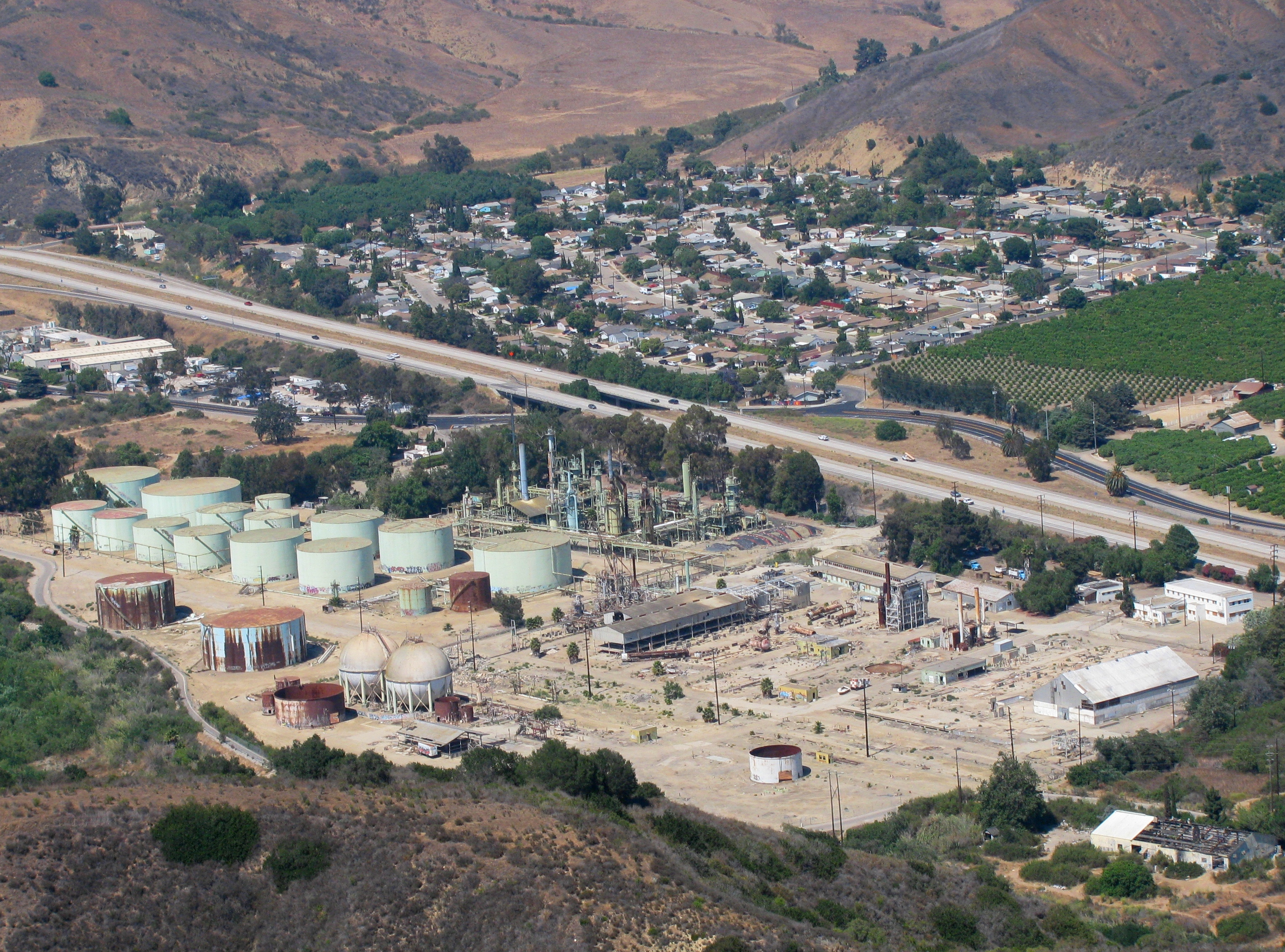 Oil processing and storage facility, Ventura Oil Field; photo by self, while trying not to fall out of the window of a Cessna; GFDL/equiv, July 2009